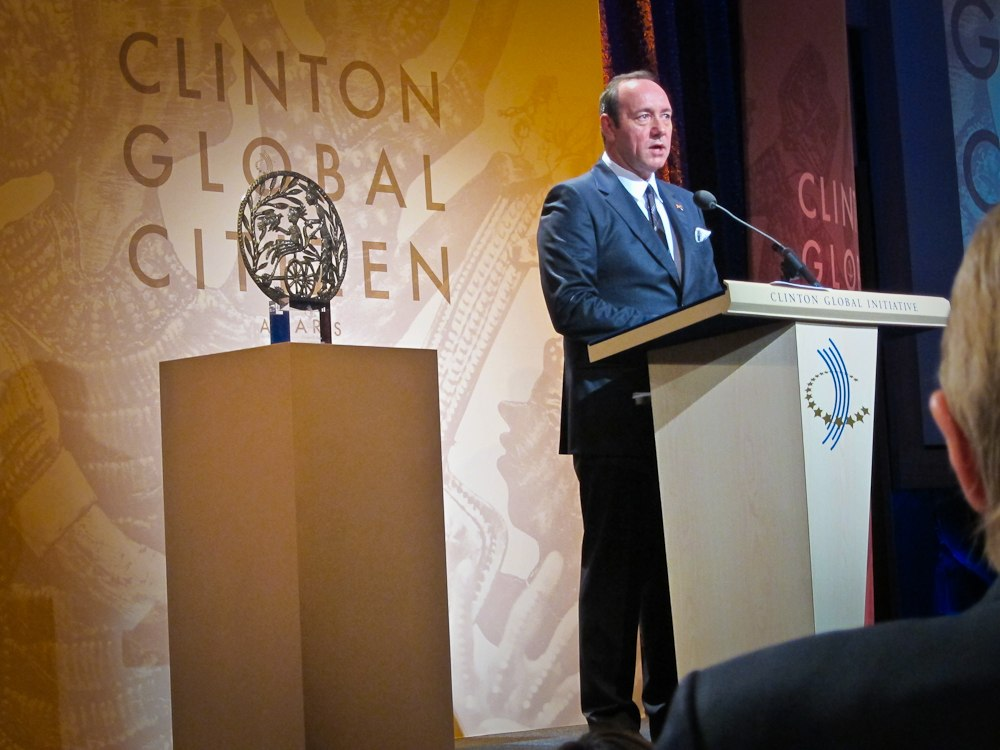 Kevin Spacey onstage at Clinton Global Citizen in 2010.